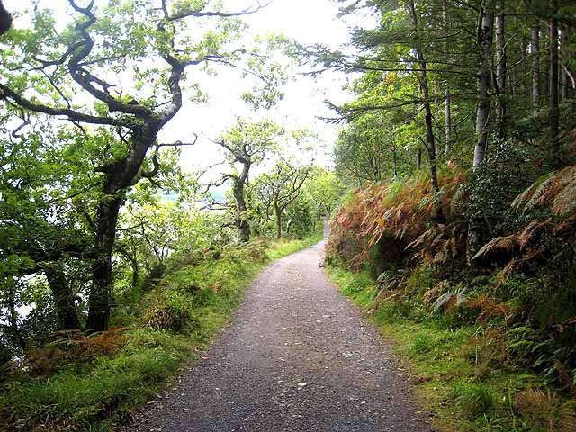 Slish Wood Forest Trail From a car park on the R287, the Slish Wood Forest Trail runs alongside an inlet of Lough Gill before striking north-eastwards along the open shore of the Lough.